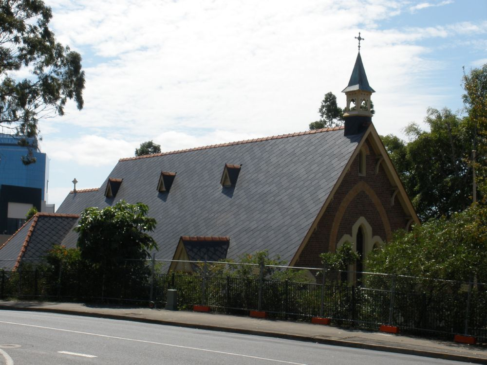 St Thomas Church of England (2008), seen from Jephson Street